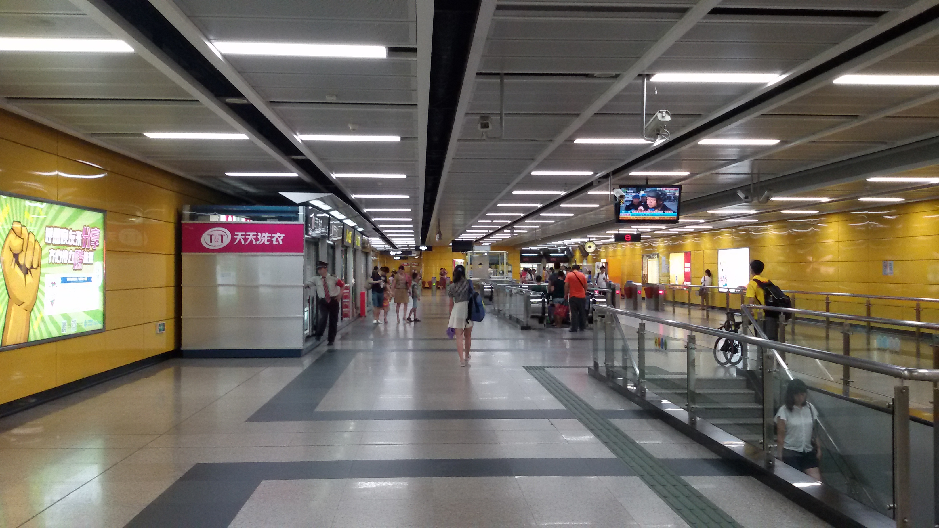 Station Concourse for Lujiang Station, Guangzhou Metro. 粵語: 廣州地鐵，鷺江站嘅站廳。